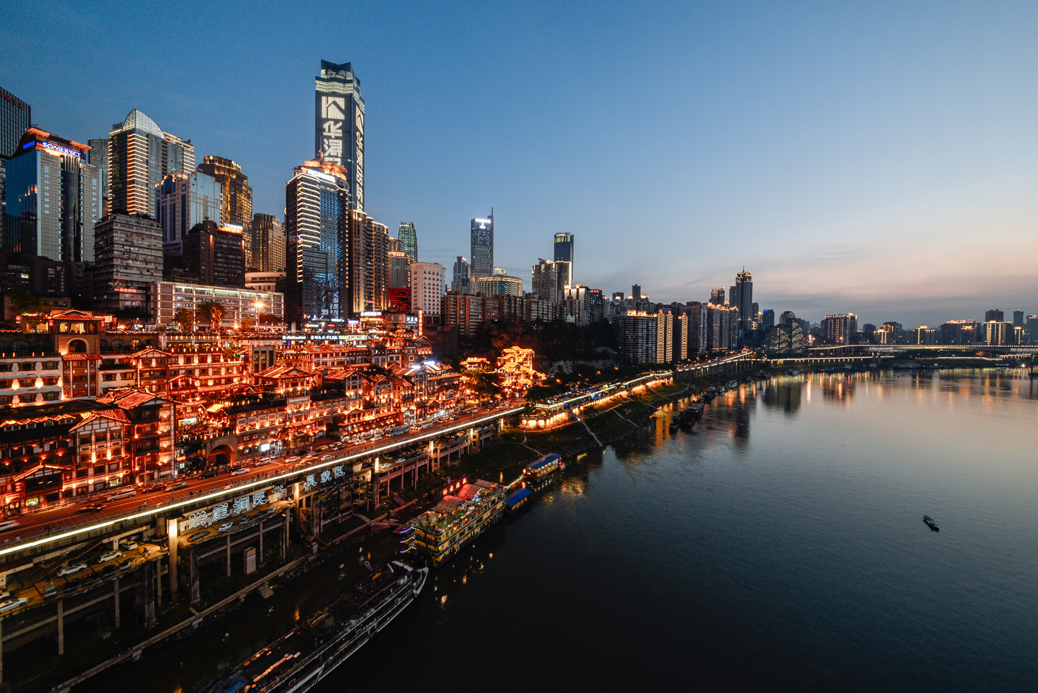 A sunset view of Chongqing Central Business and Hangya Cave